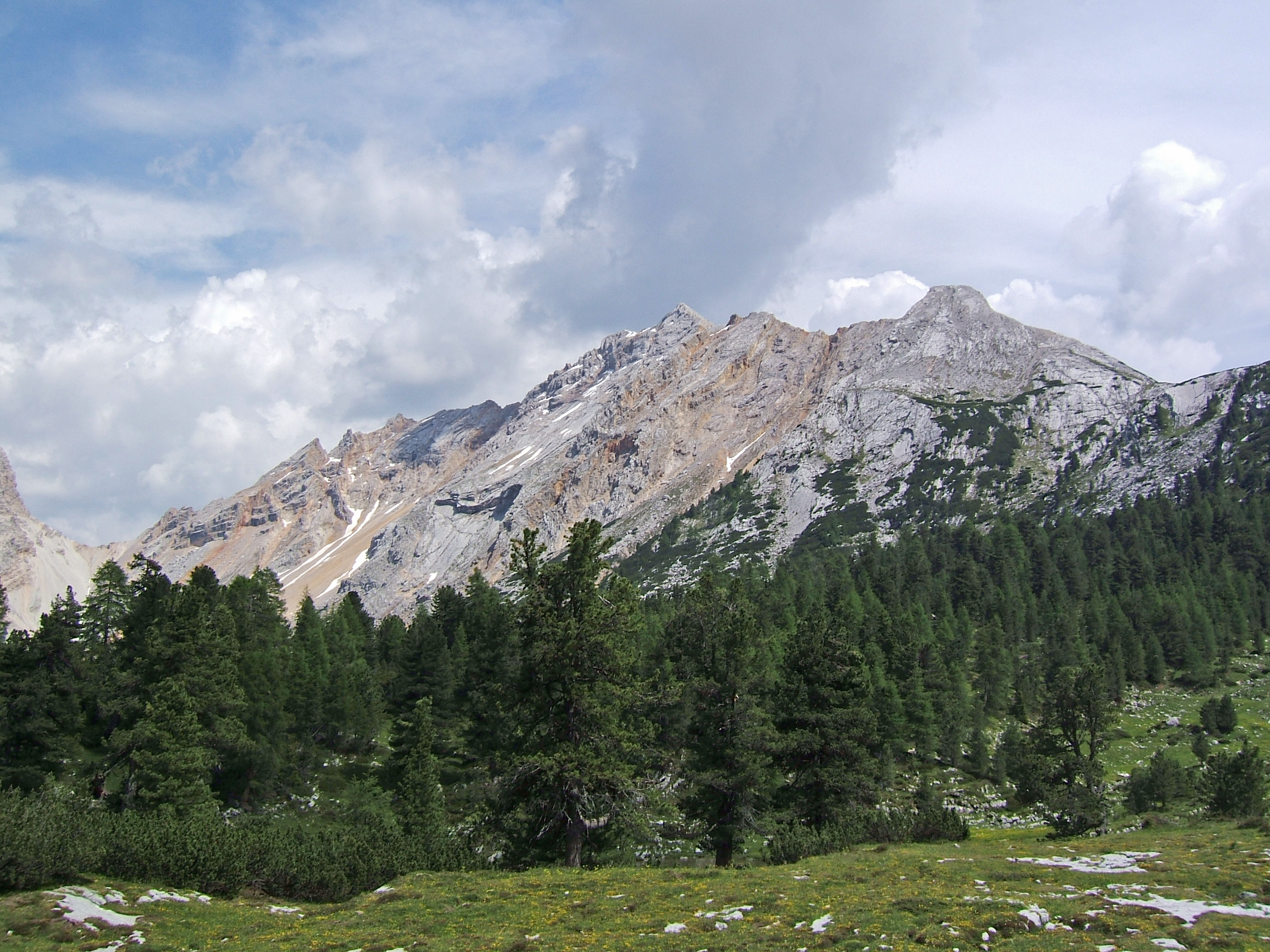 Col Bechei from northwest, from ascent to Fanesalm